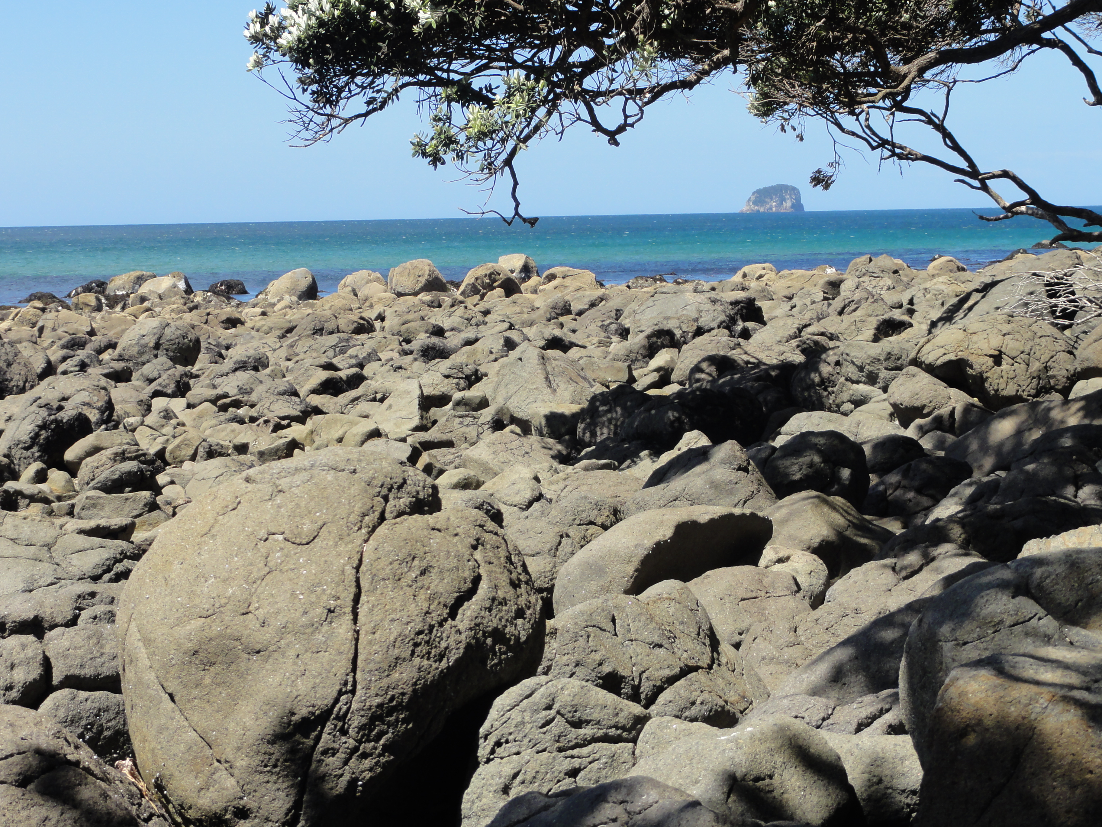 concretions at the coast just south of Hot Water Beach, New Zealand the island is castle island